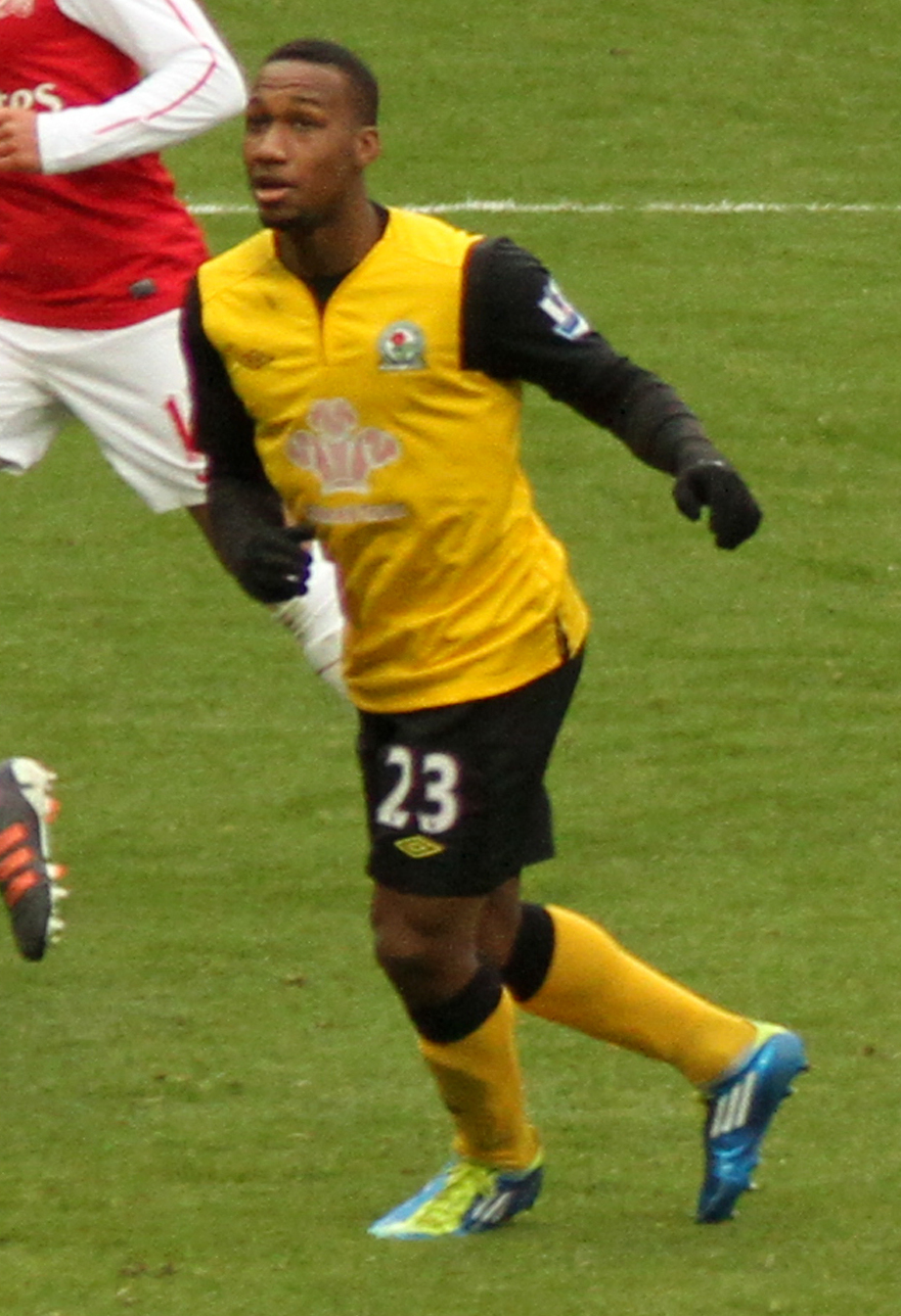 Defending a free kick 1